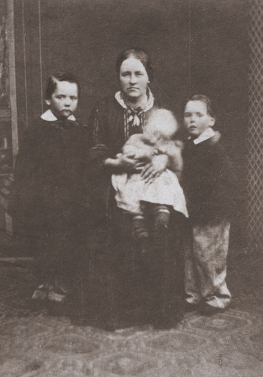 A photograph of Catherine Davies and her children, before they emigrated to Patagonia in 1865.